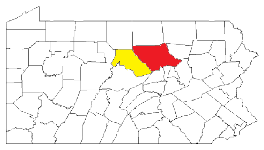 Williamsport-Lock Haven, PA CSA 2014